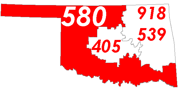 Area code location for 580